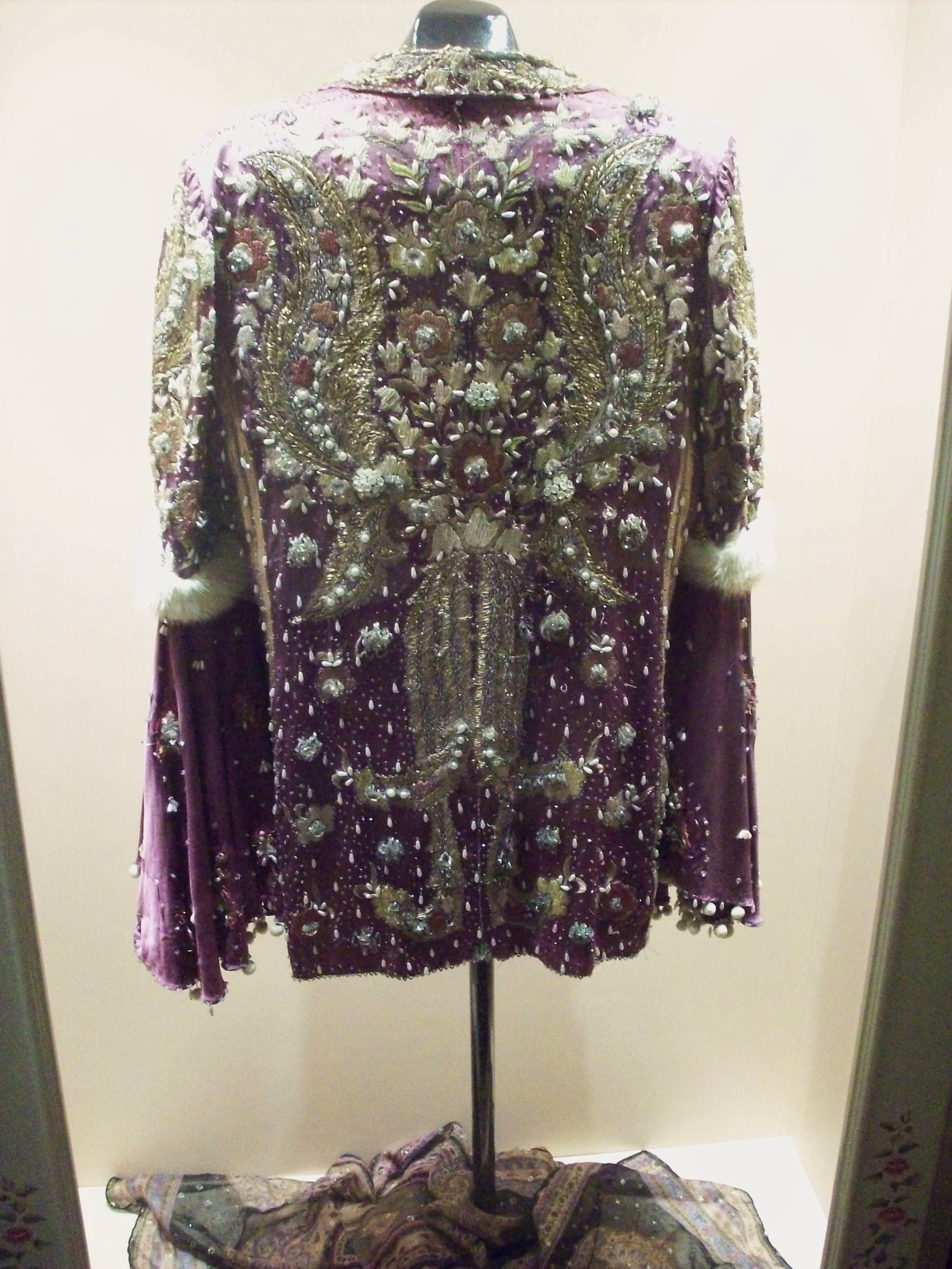 Costume of Turkish singer Zeki Müren shown at his museum in Bodrum, Turkey